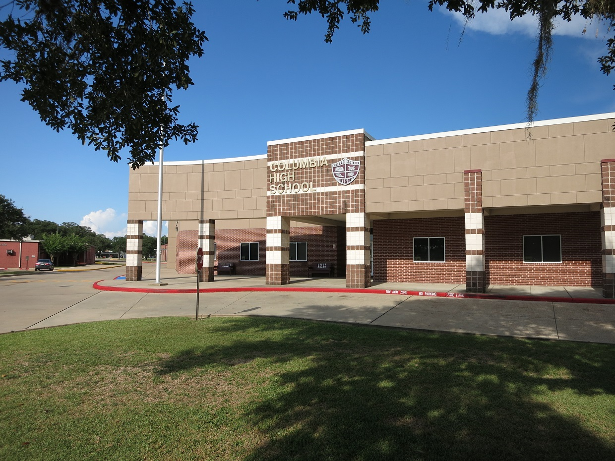 Photo shows Columbia High School at 520 S. 16th Street, West Columbia, Texas 77486. It is part of the Columbia-Brazoria Independent School District. View is toward the NE.